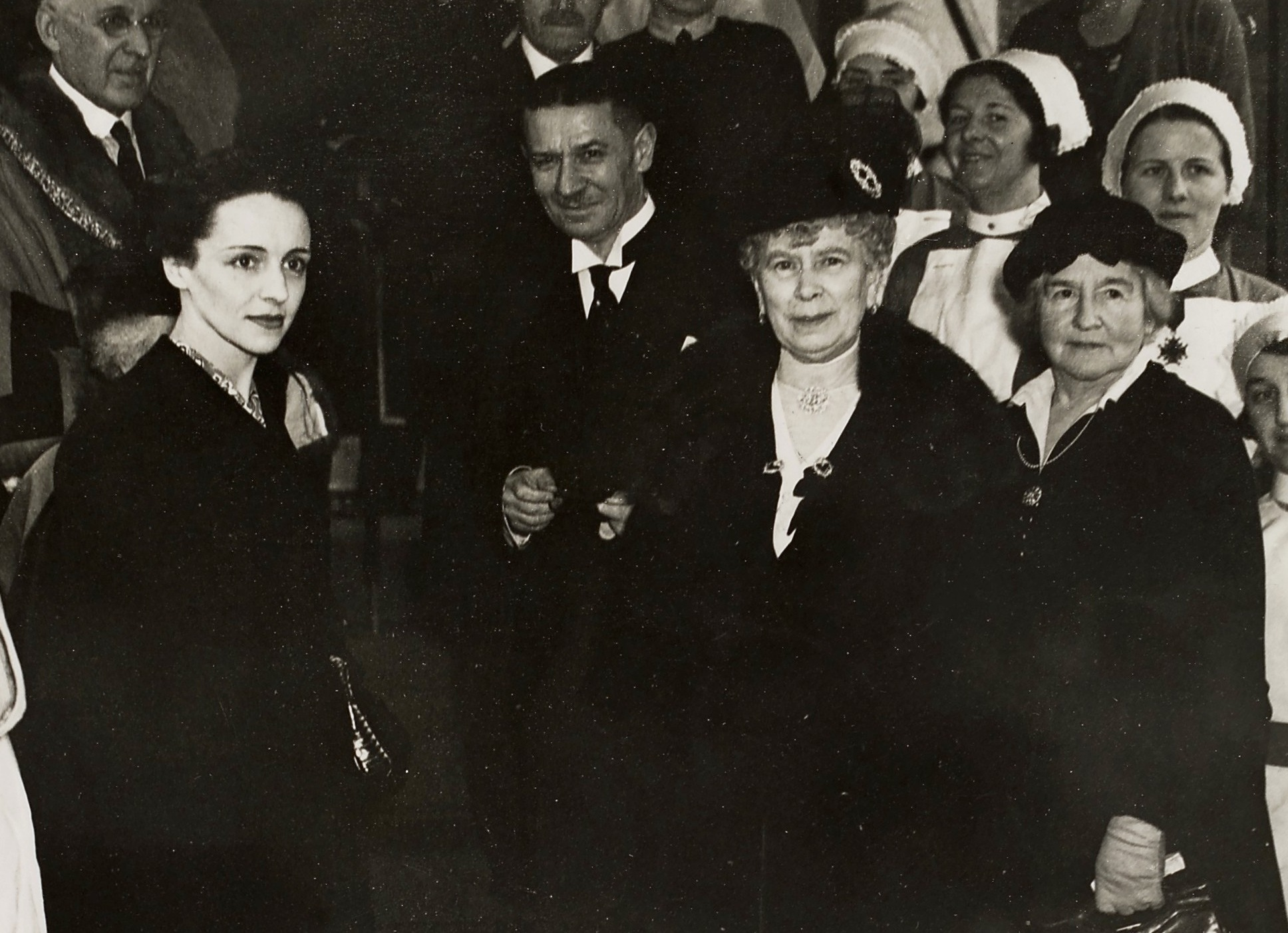 Photograph of the visit of HM Queen Mary to the Marie Curie Hospital for Cancer and Allied Diseases, March 1937. The Queen was Patron of the hospital. She is accompanied by Mlle Eve Curie (daughter of Marie Curie), Dr Henri Coutard, Director of the X-ray Therapy Department of the Curie Foundation in Paris, and the Viscountess Runciman.